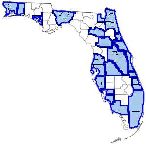 Created by me on February 21, 2007 using a generic Florida county boundaries map found on Wikipedia.